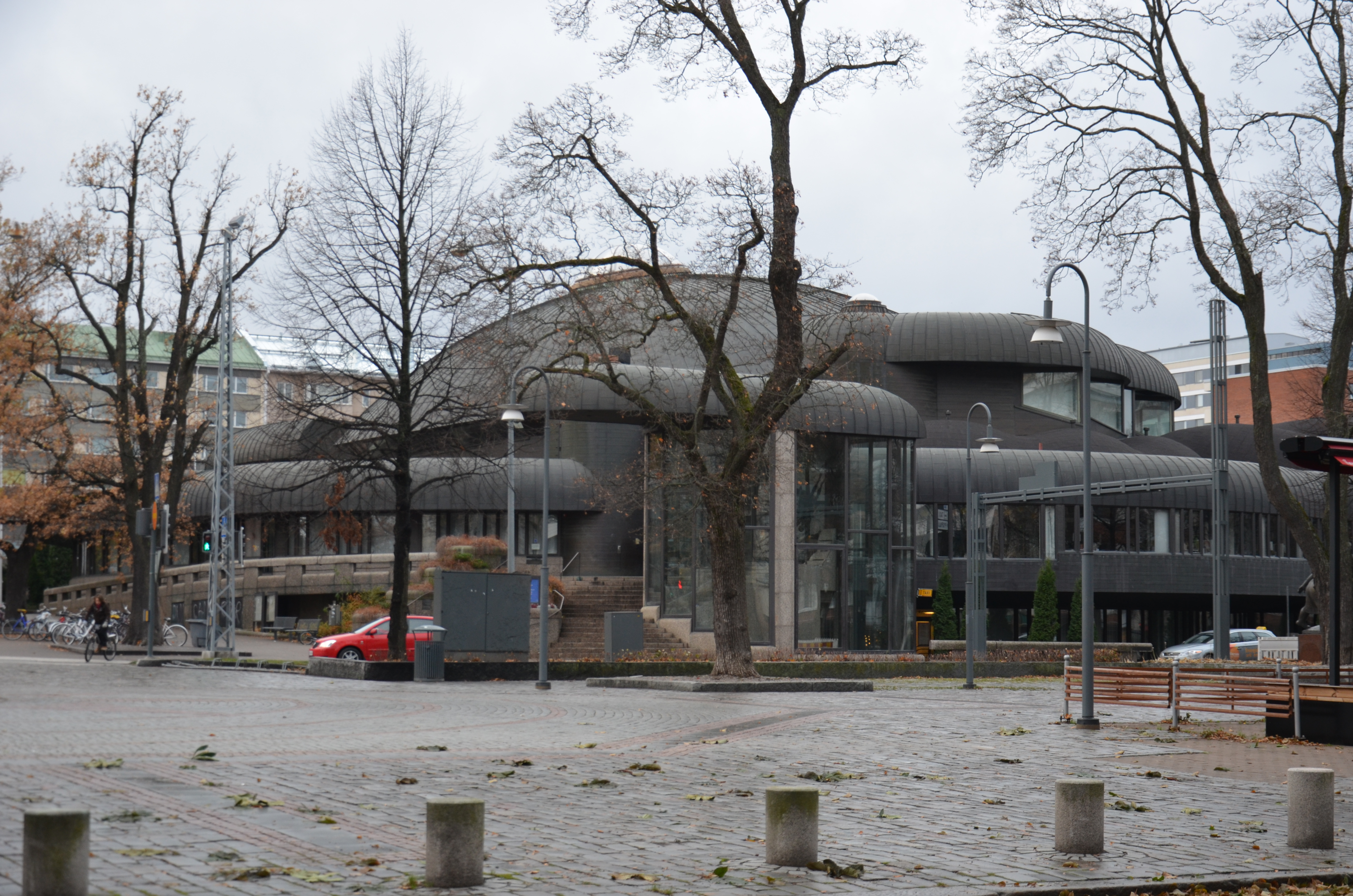 Tampere City Library by Reima och Raili Pietilä